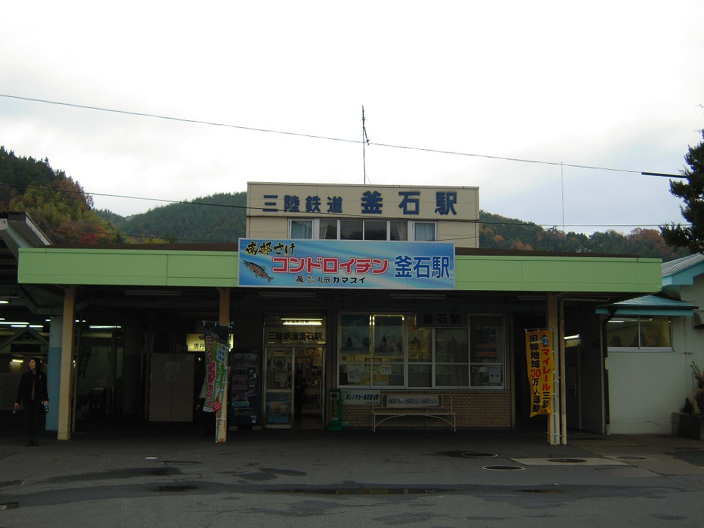 Sanriku Railway Minami Lias Line Kamaishi Station in Kamaishi City, Iwate Prefecture, Japan